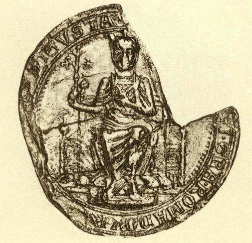 This is a scan of the historical document